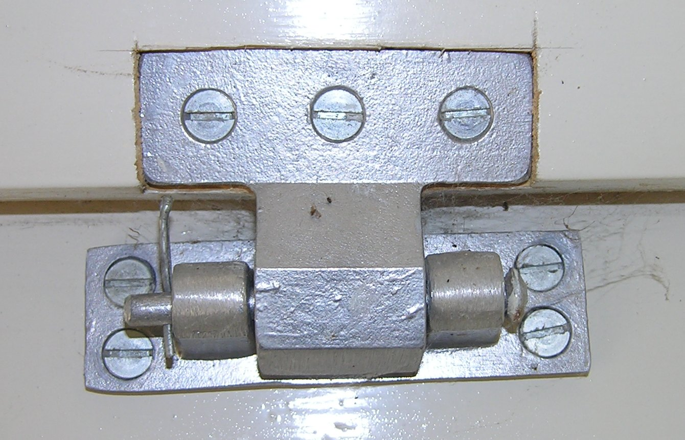 The two part iron hinge